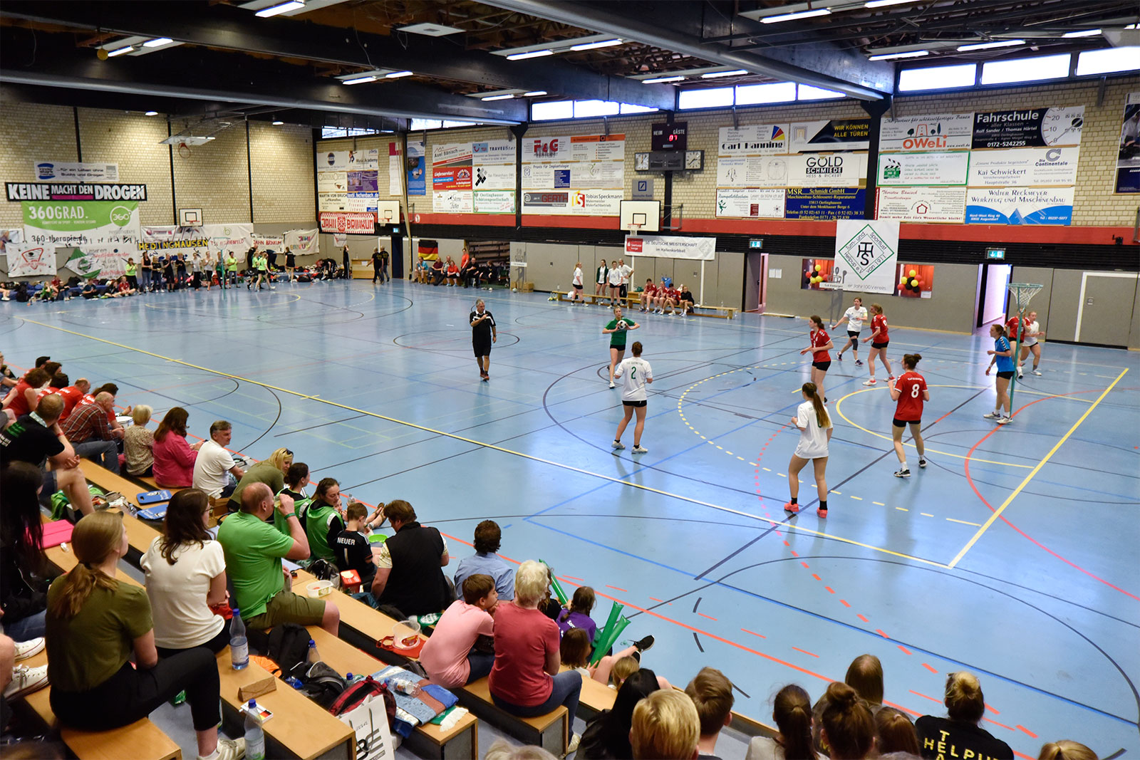 Scene from the game for 3rd place at the 50th German Indoor Korbball Championships in Oerlinghausen between TuS Sudweyhe (white jerseys, goalkeeper green jersey) and TuS Eisbergen.